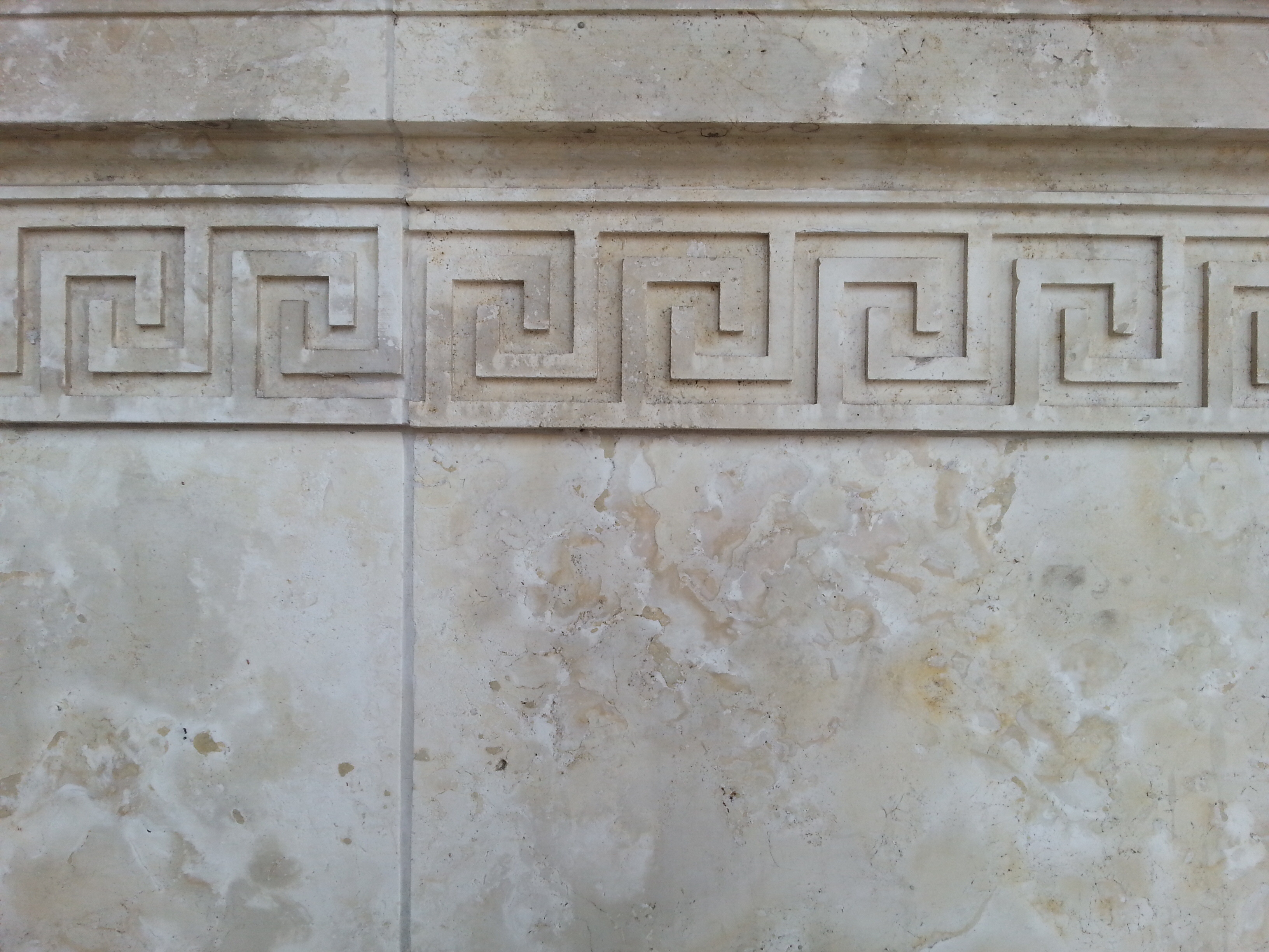 Meander ornament of the Ruhmeshalle in Munich.